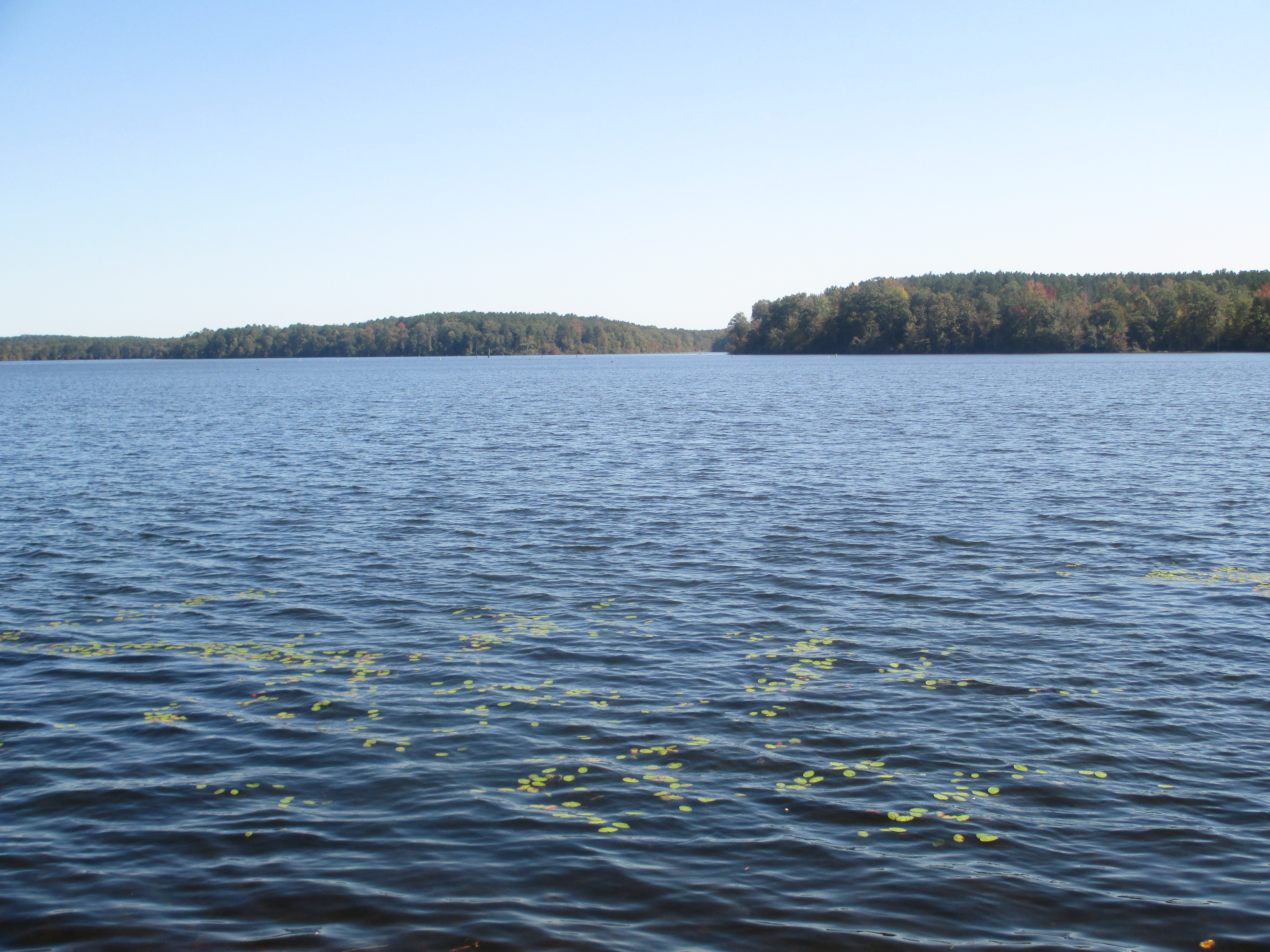 I took photo of Kepler Lake in Bienville Parish with Canon camera.